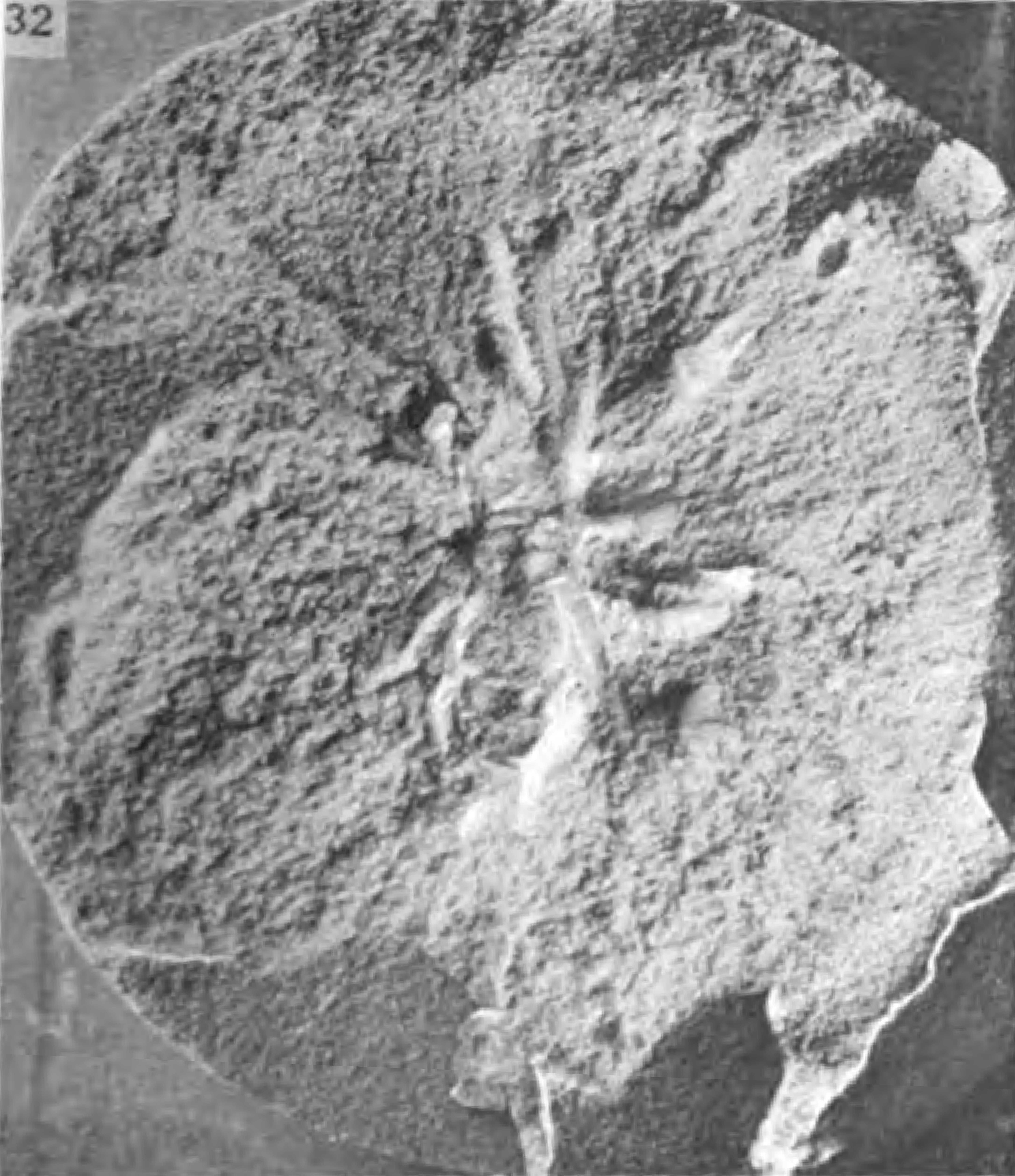 A monograph of the terrestrial Palaeozoic Arachnida of North America